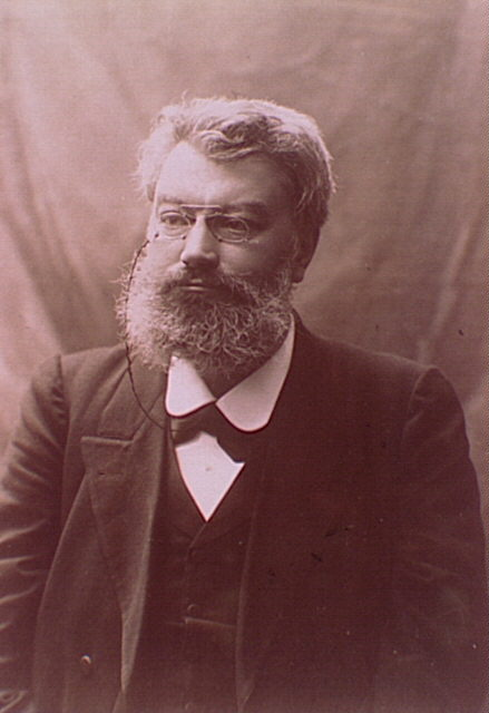 Photo of [Charles] Camille Pelletan (1846 - 1915), French minister of Marine from 1902 to 1905